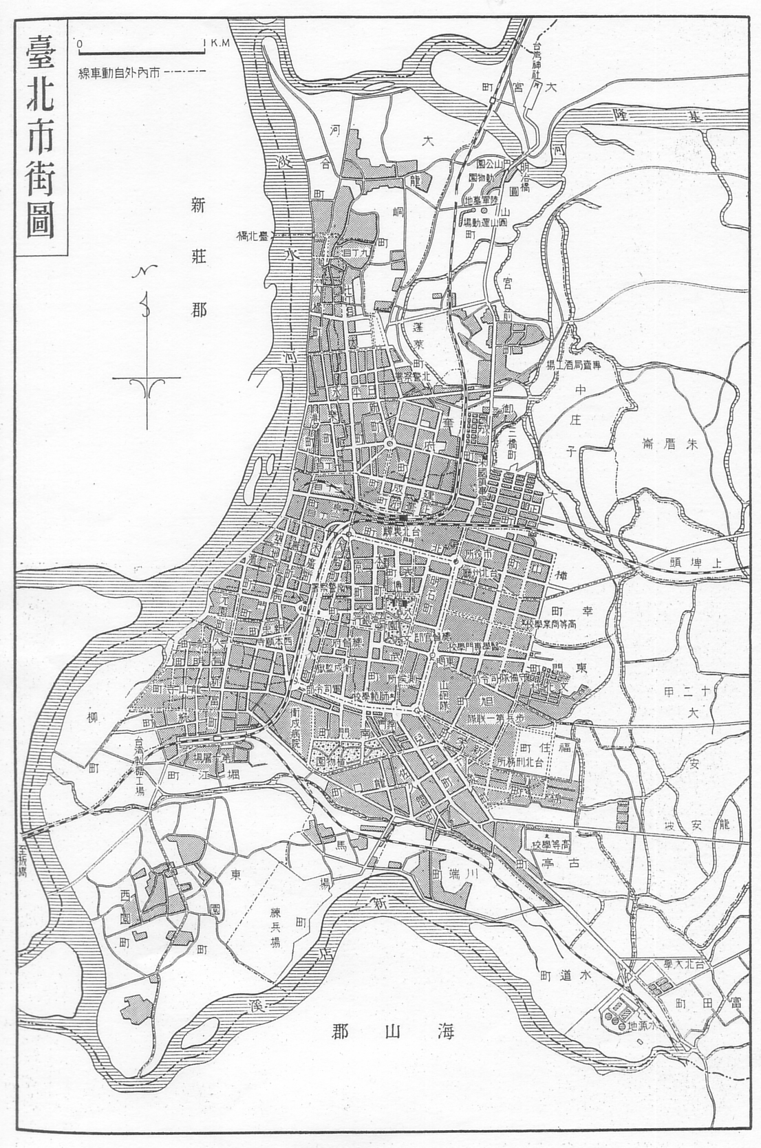 Taihoku(Taipei) map circa 1930